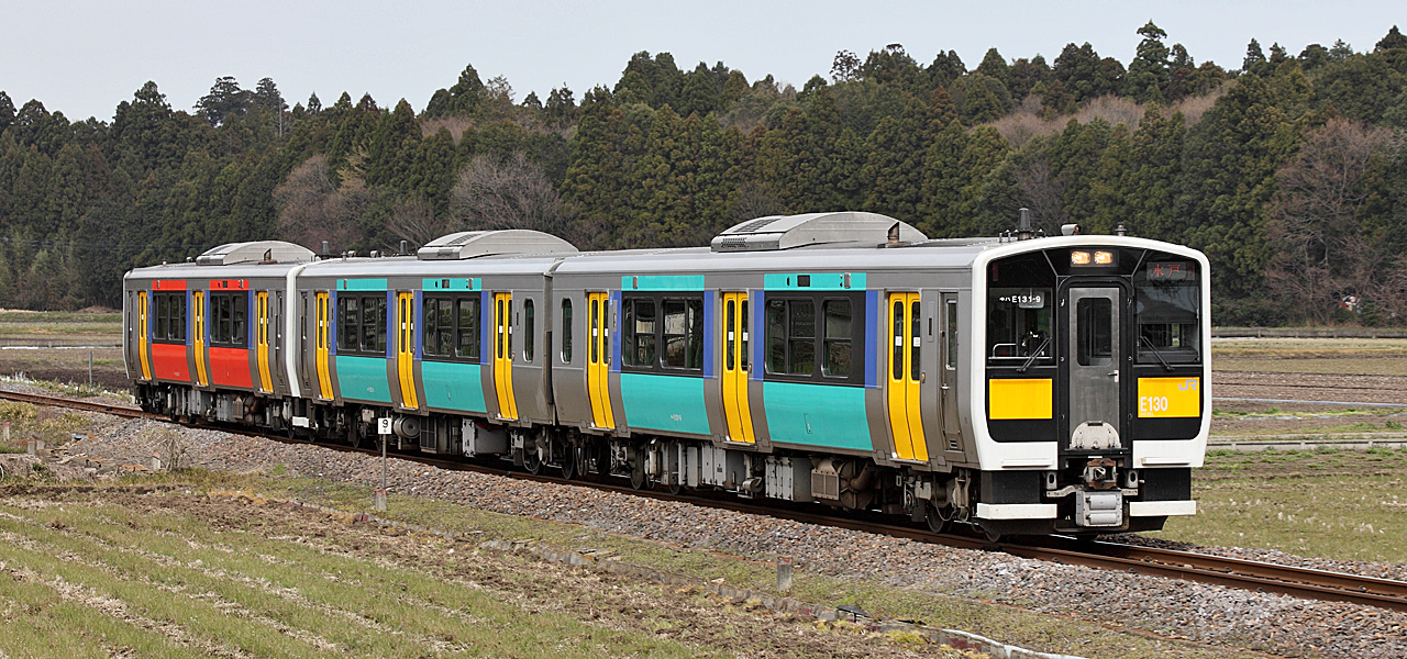 JR East Kiha E130 series DMU (Kiha E131+Kiha E132+Kiha E130 from right, Shimo-Sugaya Stn. - Godai Stn.)